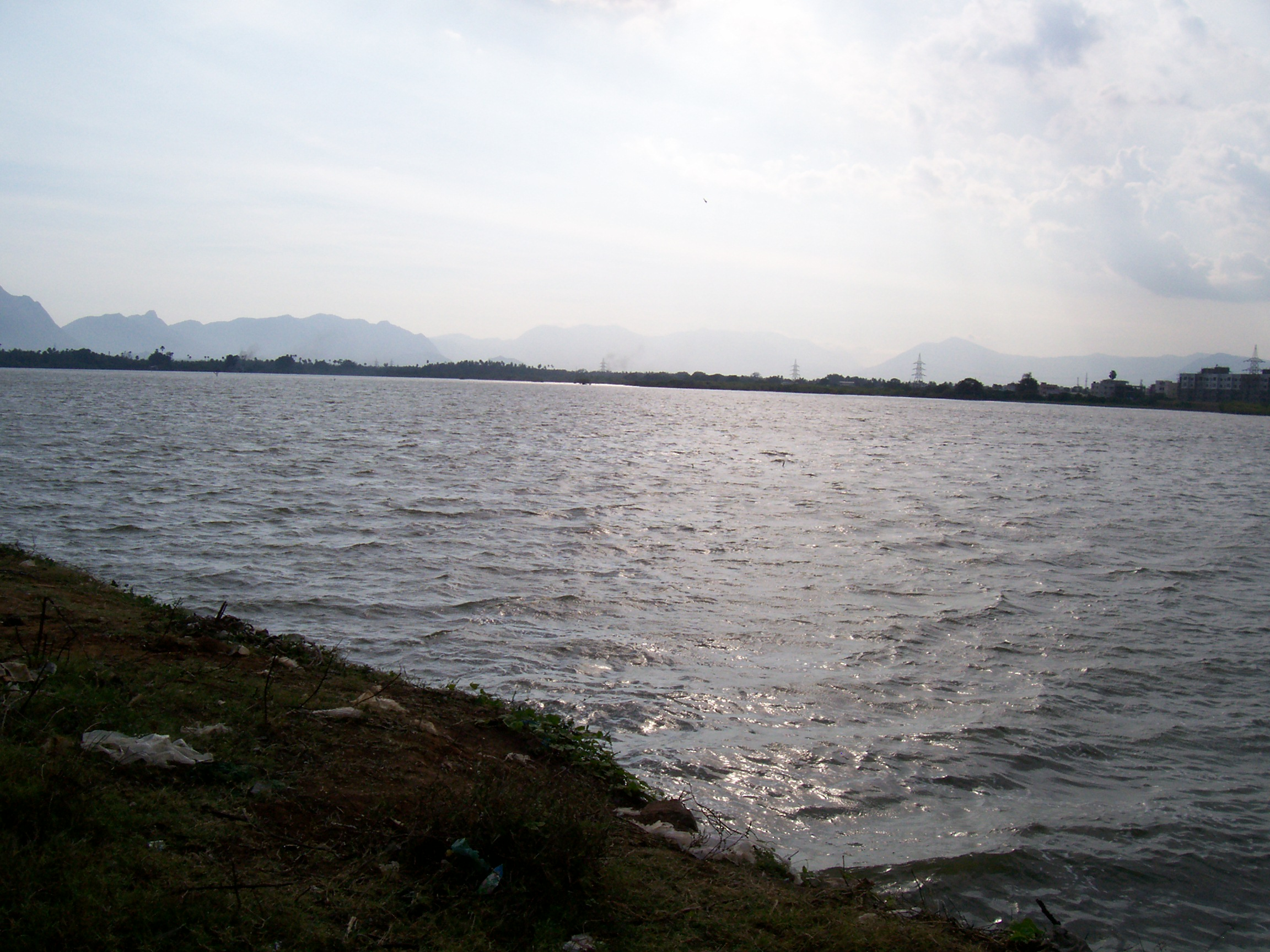 Periya Kulam [Big Lake], at Ukkadam, Kovai.